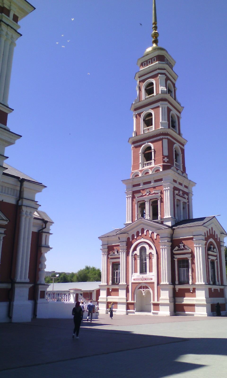 Church of the Intercession of the Holy Mother (Church of Pokrov), Gorky St., Saratov